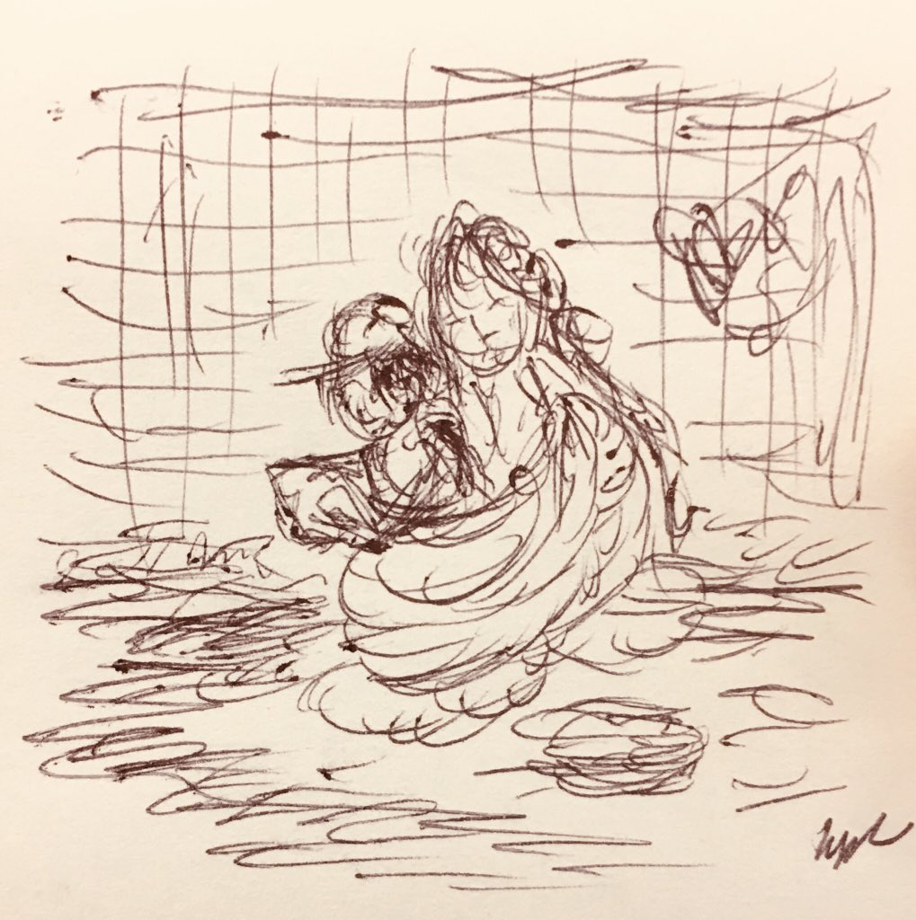 'Homeless child studies under the moonlight' by Marcil d'Hirson Garron.